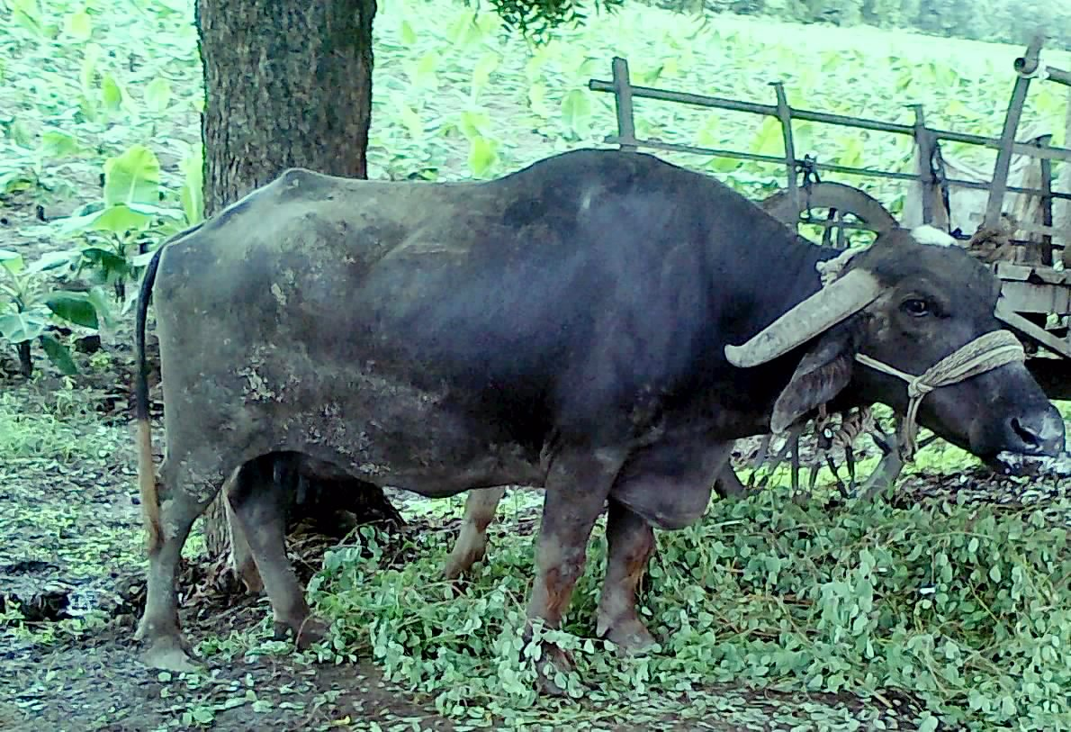 Btffalo in a farm outside a village in Maharashtra, India